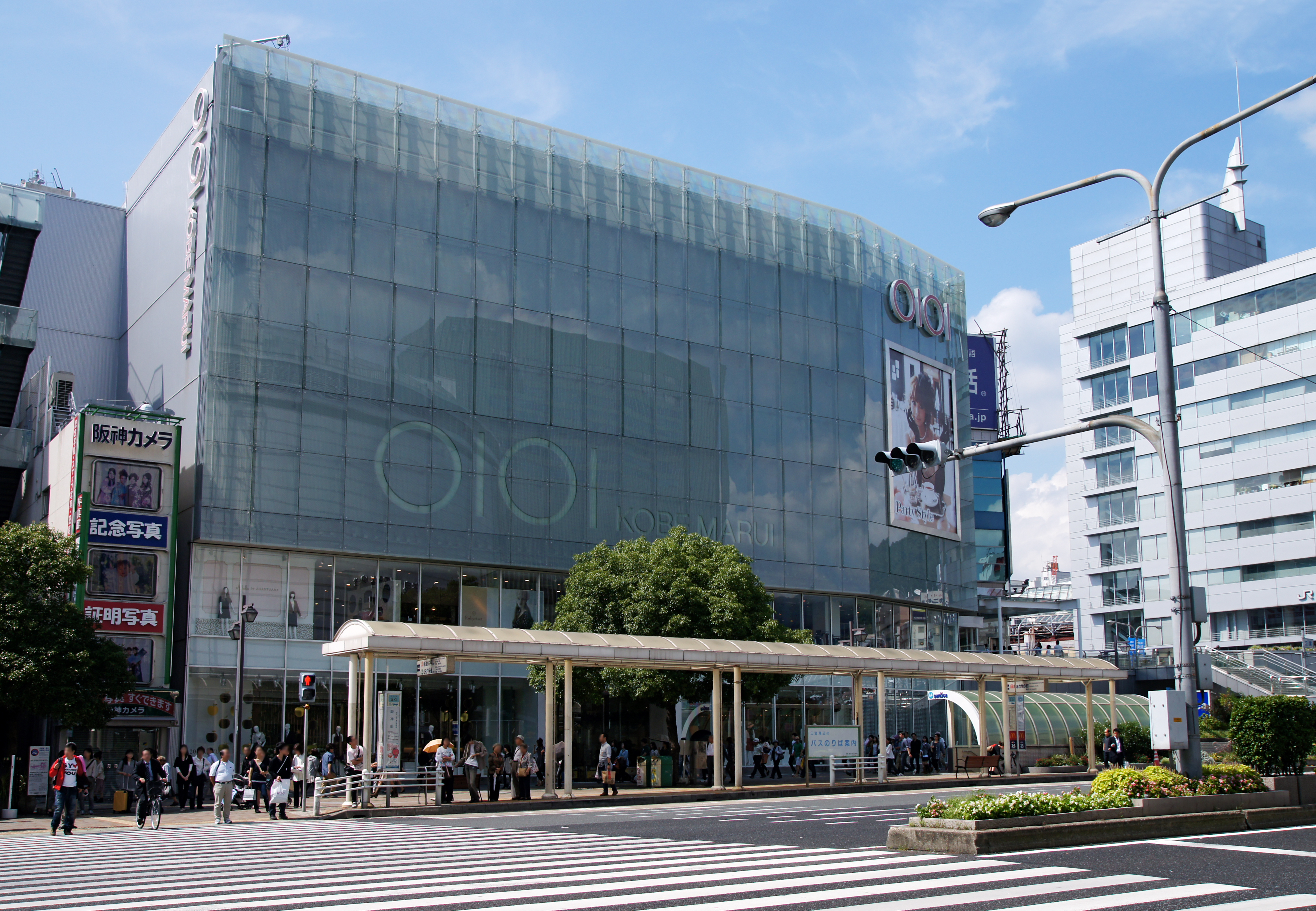 Kobe Marui department store in Sannomiya, Kobe, Hyogo prefecture, Japan.